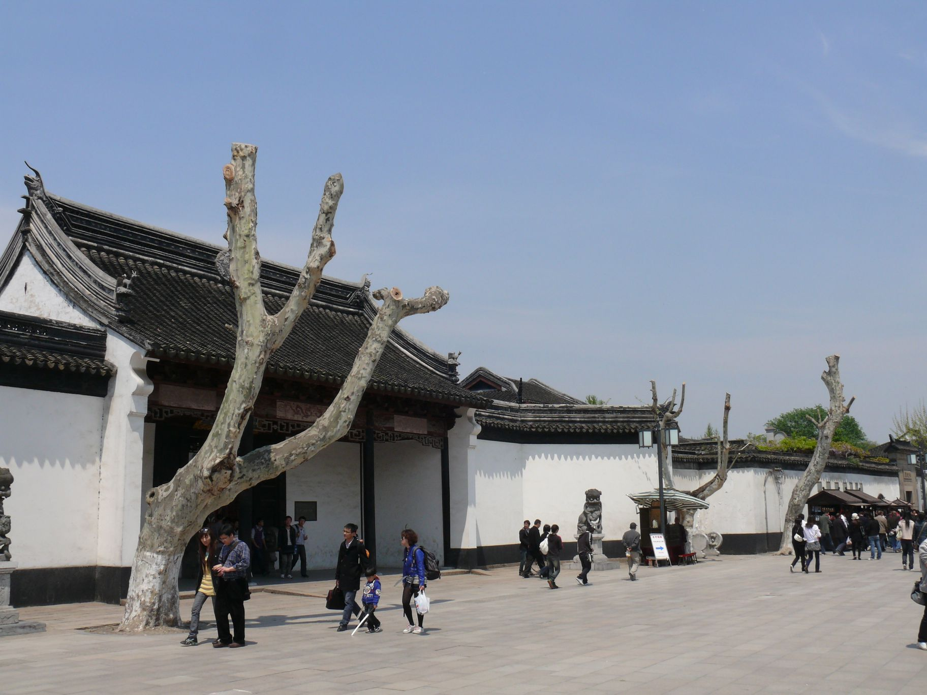 Li Xiucheng's mansion in Suzhou (Jiangsu, China).